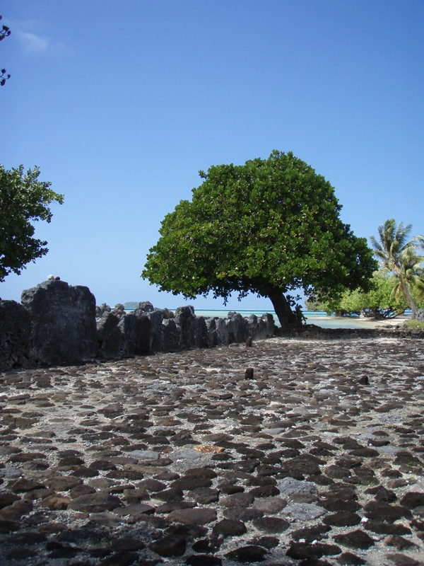 The marae of Taputapuatea on the island of Ra'iatea, French Polynesia. An ancient marae mentioned in the traditions of Polynesian peoples, including, for example, the Māori of New Zealand, who regard this place as a sacred marae of their ancestors. This is where the Hawaiian voyaging canoe Hokule'a landed on her first voyage in 1976.